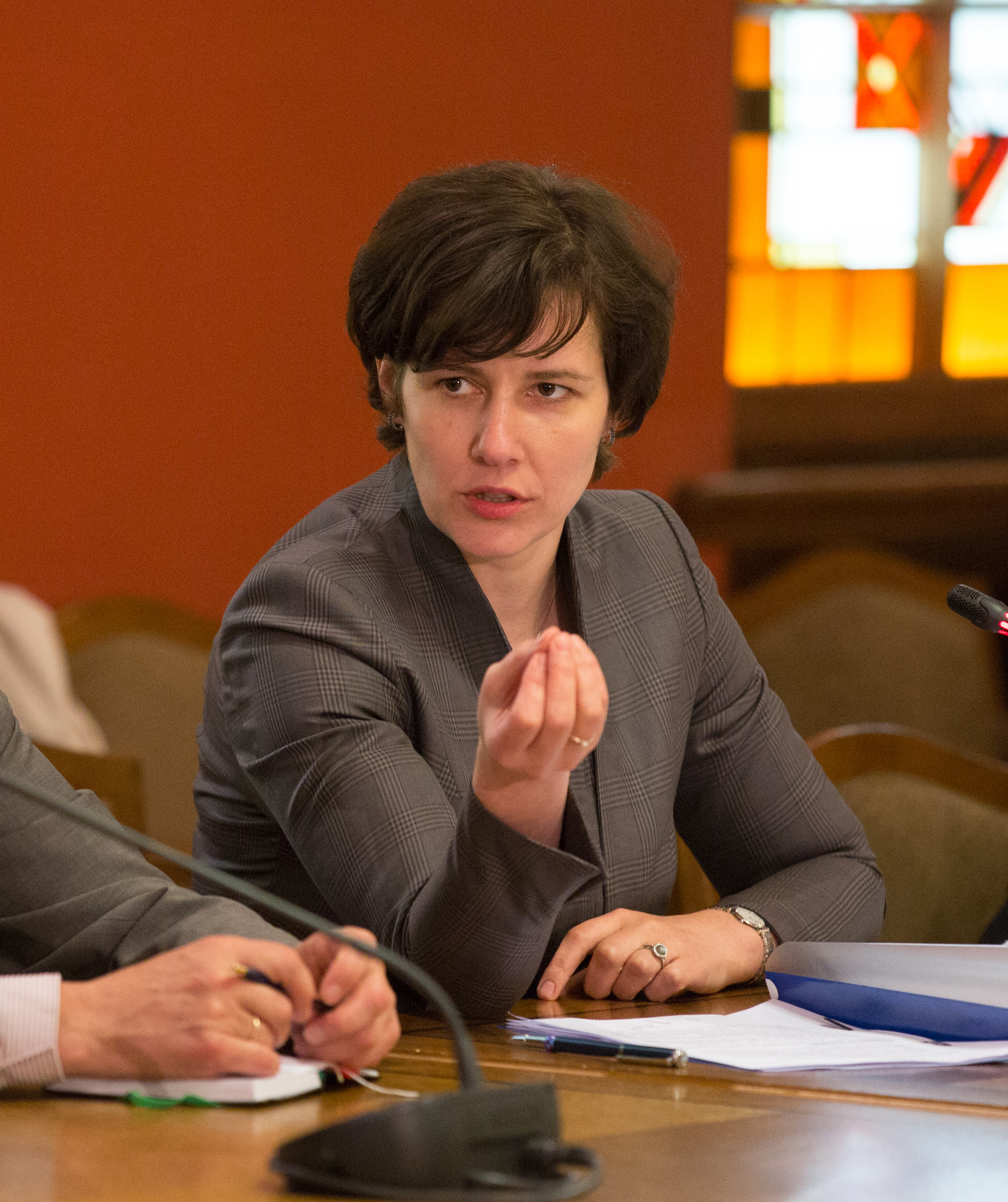 Dana Reizniece-Ozola during 2016.gada 18.maijs. Publisko izdevumu un revīzijas komisijas un Sociālo un darba lietu komisijas kopsēde.